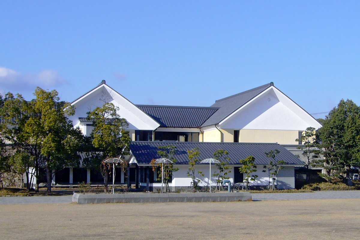 Fukuyama Museum of Literature in Fukuyama, Hiroshima prefecture, Japan